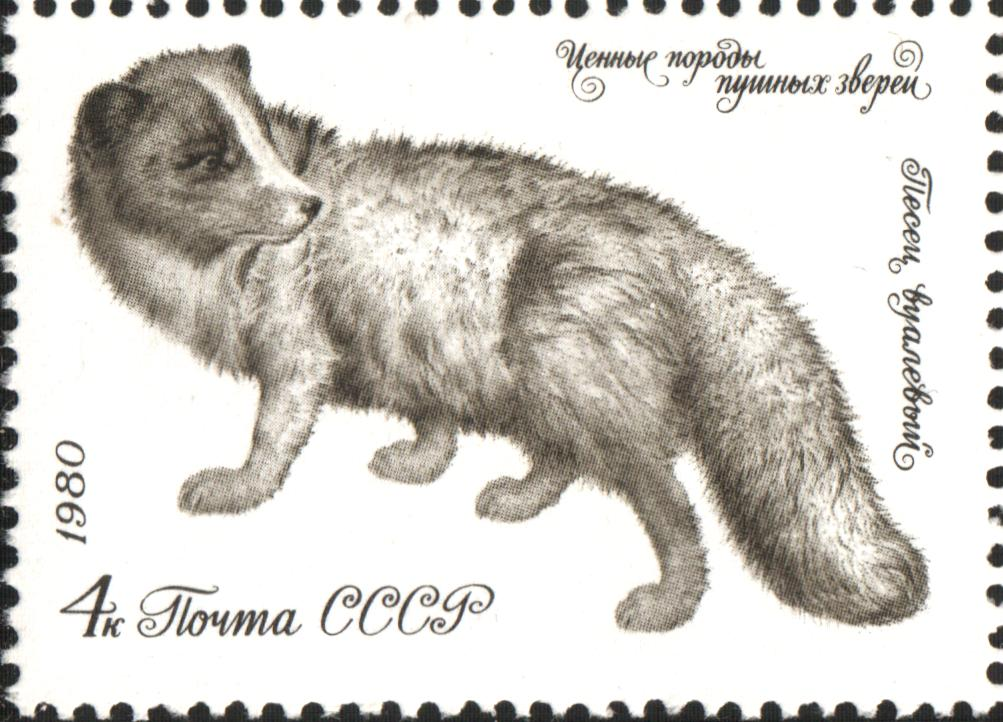 USSR stamp. Text: “Valuable breeds of fur animals. Veil polar fox”